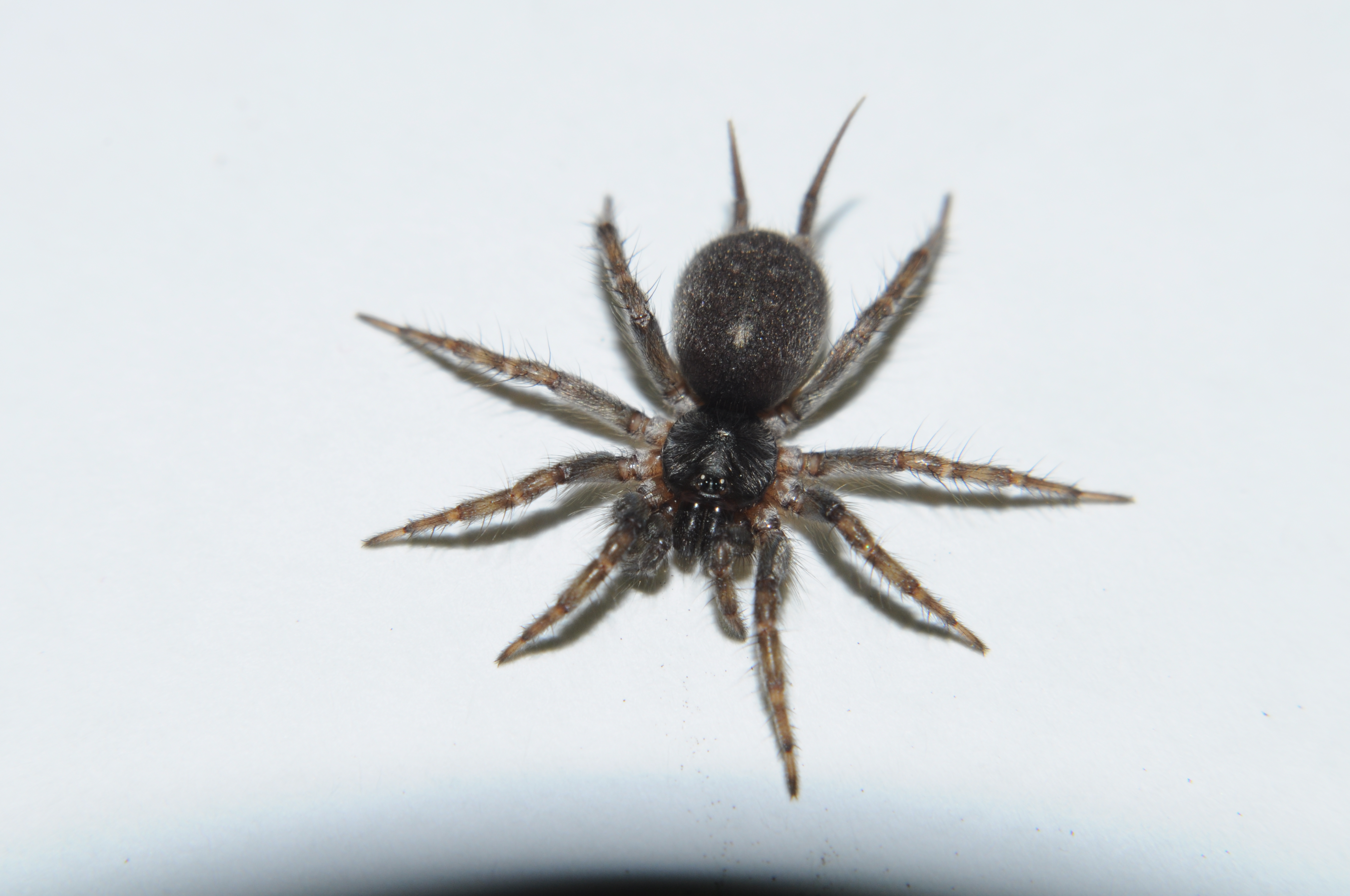 Ischnothele caudata